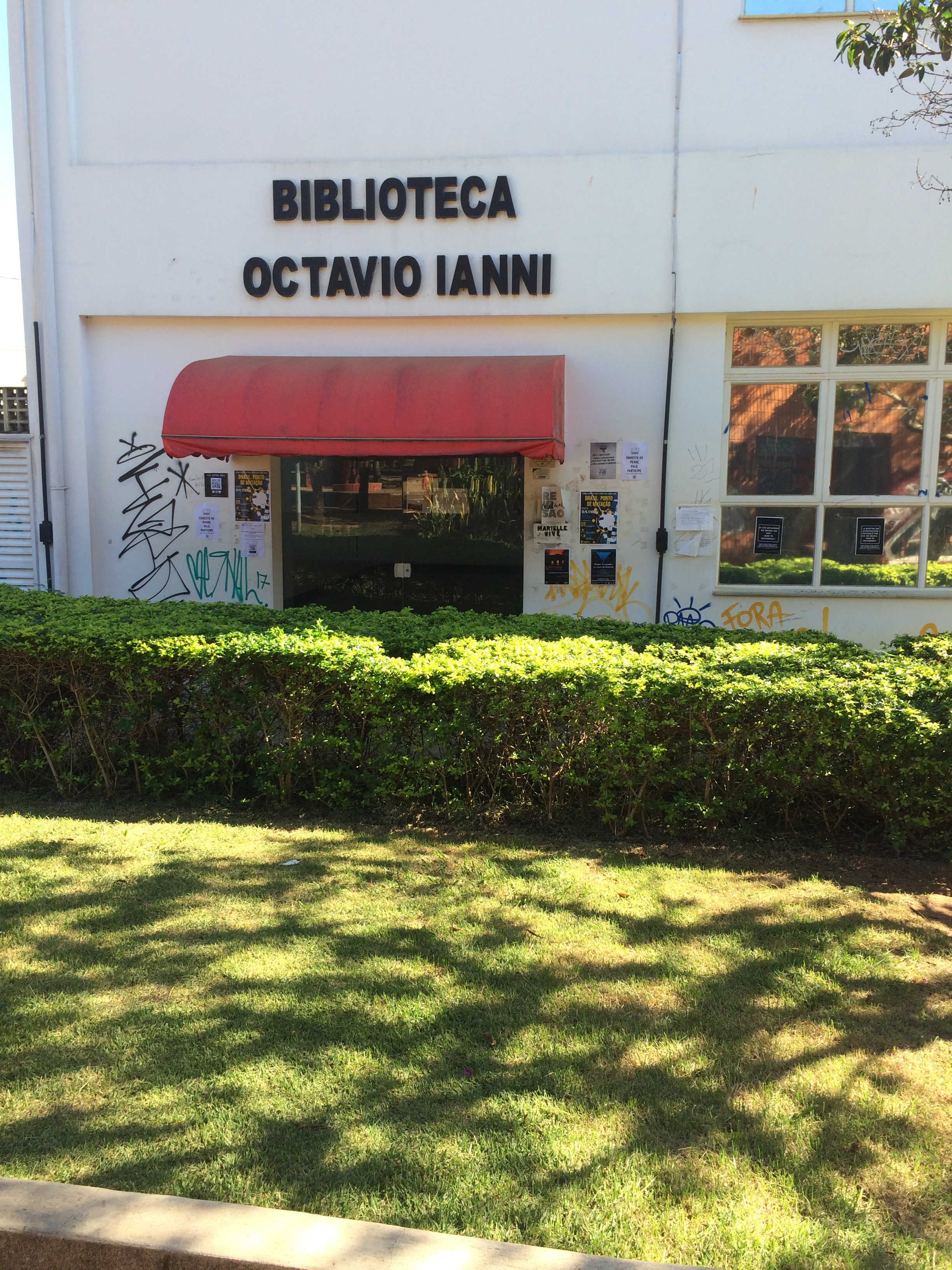 facade of library of Unicamp